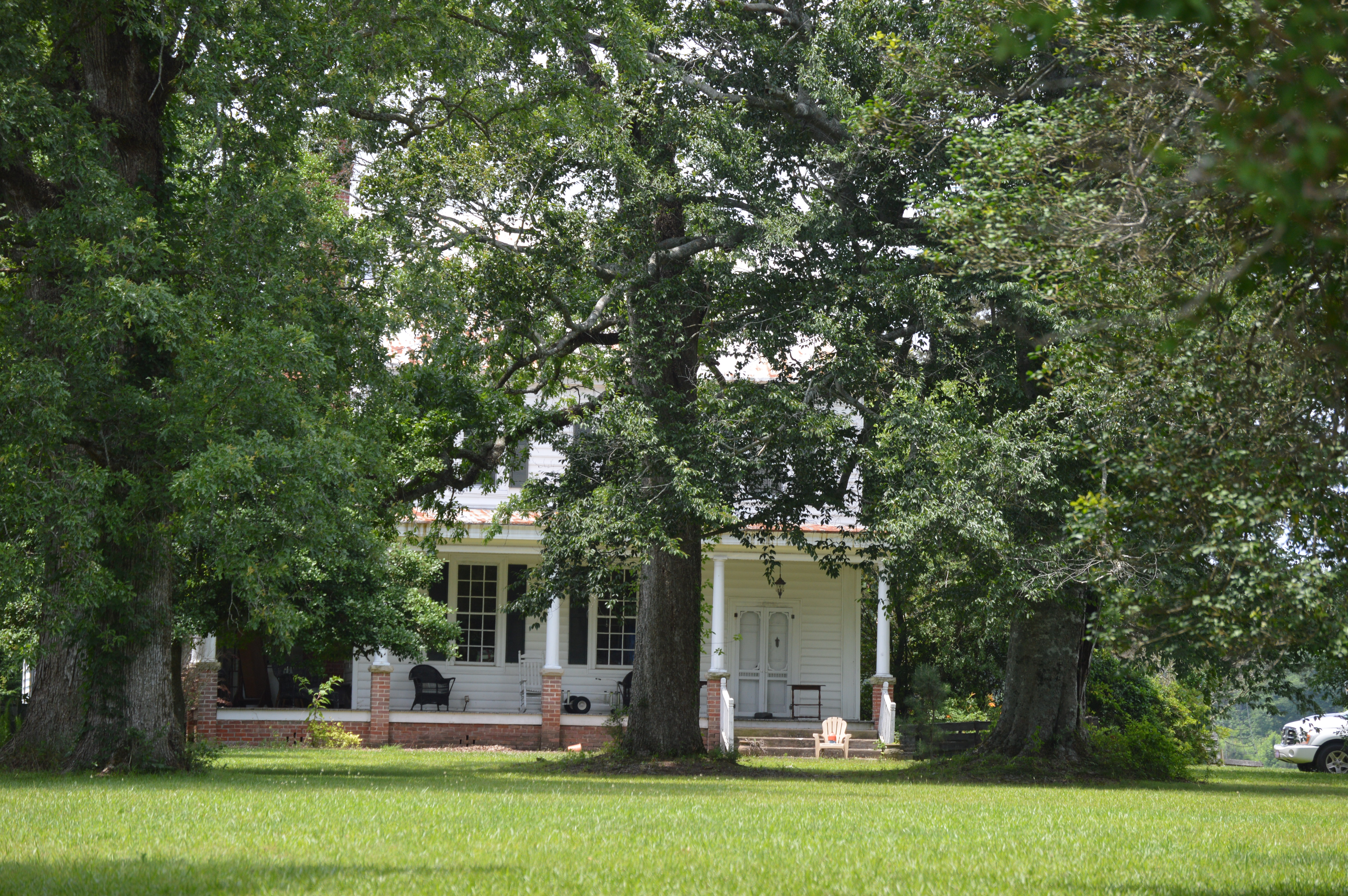 Front of the Elmwood Plantation House, located on Mill Pond Road east of Gatesville in Gates County, North Carolina, United States. Built in 1822, it is listed on the National Register of Historic Places.